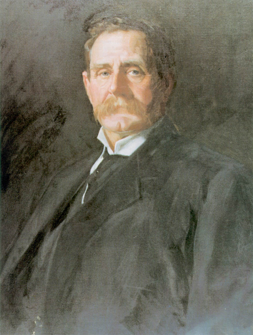 Jacob M. Dickinson (1851–1928). Oil on canvas, 29" x 24".